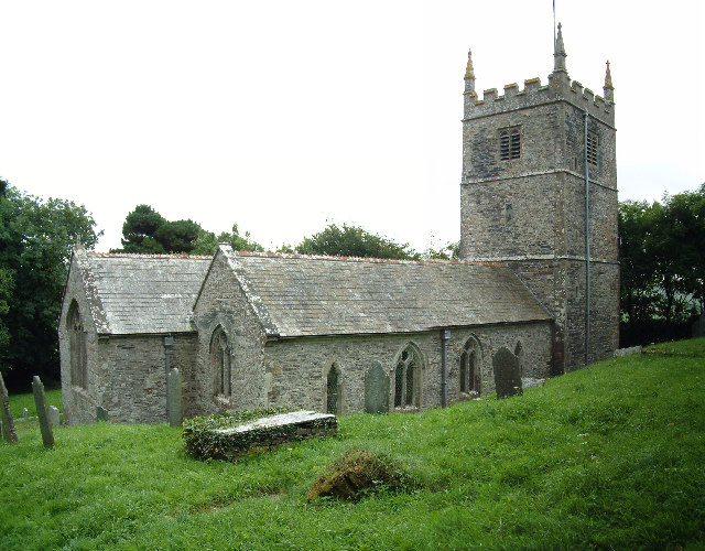 St Julitta's parish church, St Juliot, Cornwall, seen from the northeast